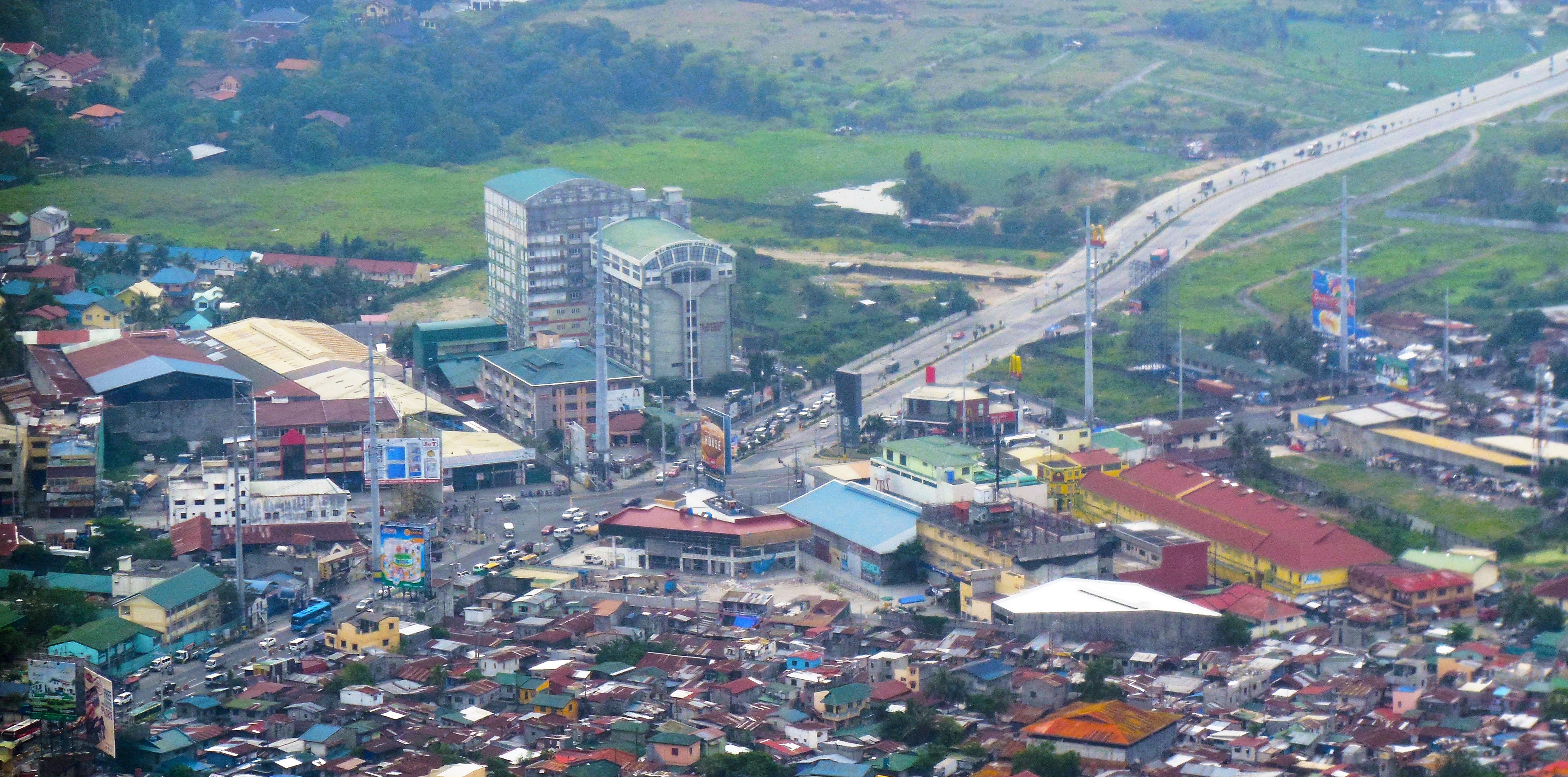 View of the Barangay Talaba in the City of Bacoor from a Cebu Pacific flight from Legazpi City, Albay. On the foreground is Aguinaldo Highway, Bacoor Boulevard and St. Dominic Medical Center.